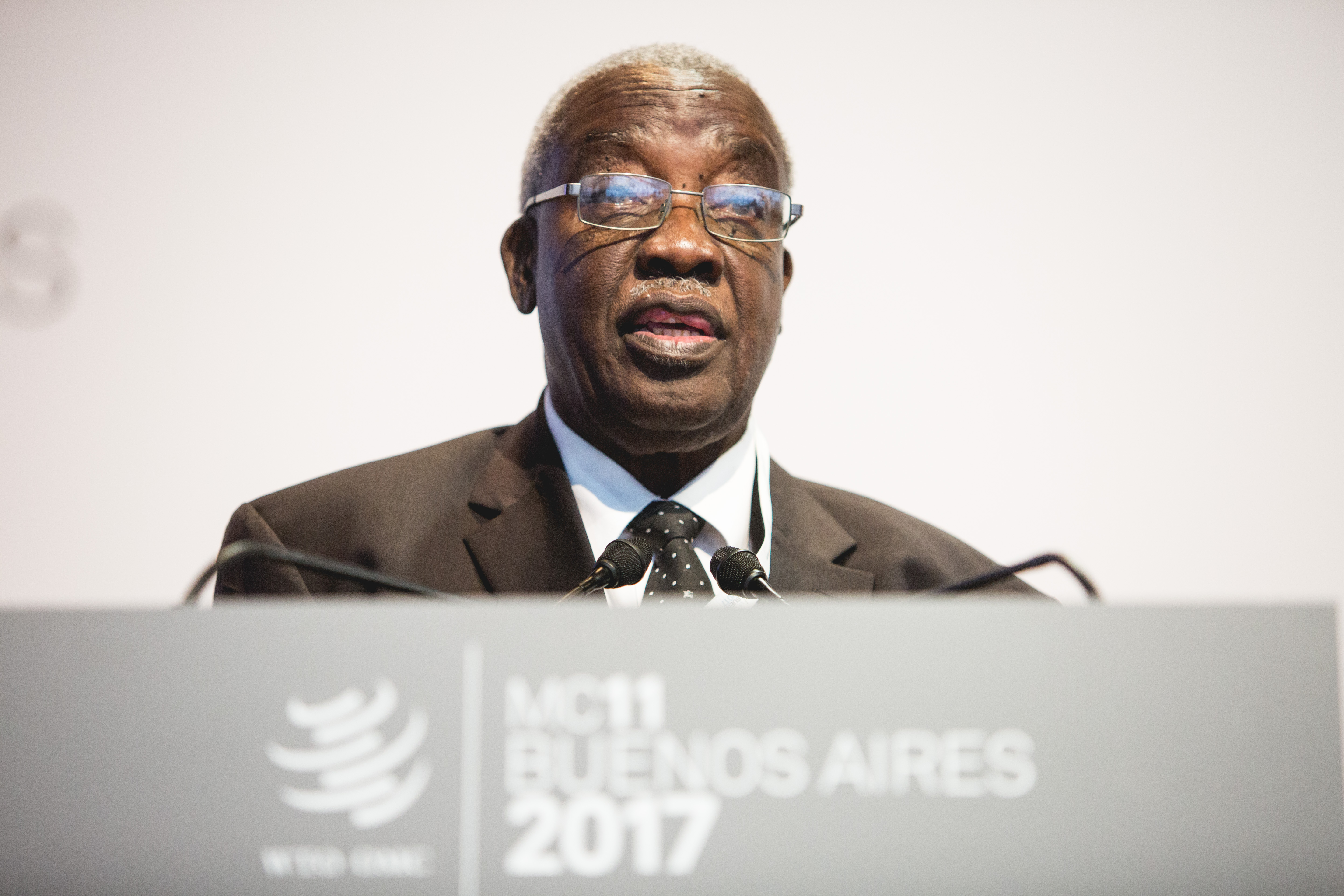 Photos from the plenary session 12 December afternoon photo gallery may be reproduced provided attribution is given to the WTO and the WTO is informed. Photos: © WTO/ Cuika Foto